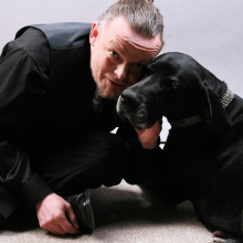 Petr Nůsek Personality rights warningAlthough this work is freely licensed or in the public domain, the person(s) shown may have rights that legally restrict certain re-uses unless those depicted consent to such uses. In these cases, a model release or other evidence of consent could protect you from infringement claims.